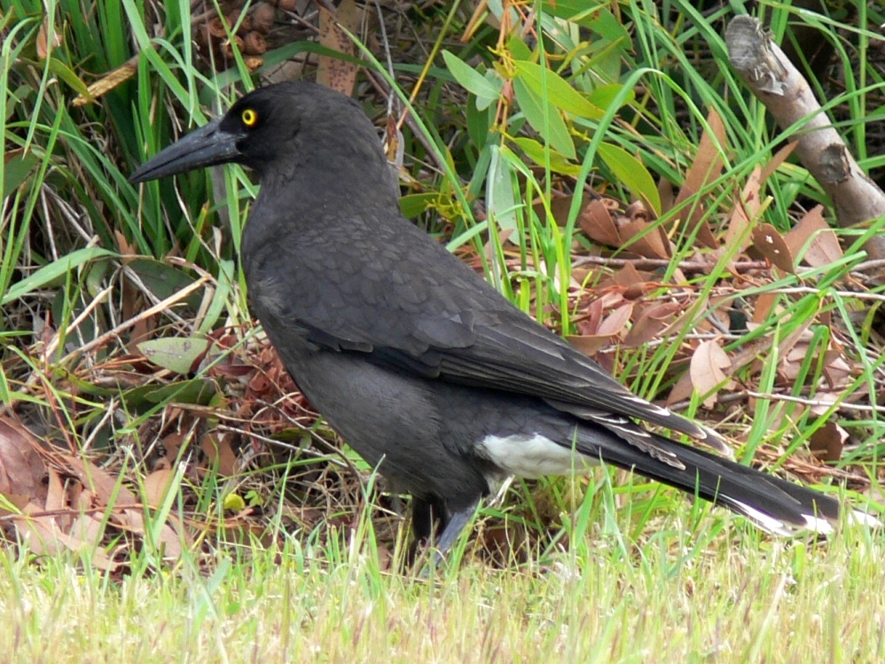 Black-winged Currawong (Strepera versicolor melanoptera), Robe, SA